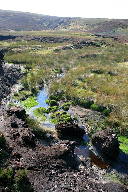 Boggy Ground in Swains Greave Cloughs gather from the south, west and north west to here. The River Derwent flows out to the east.